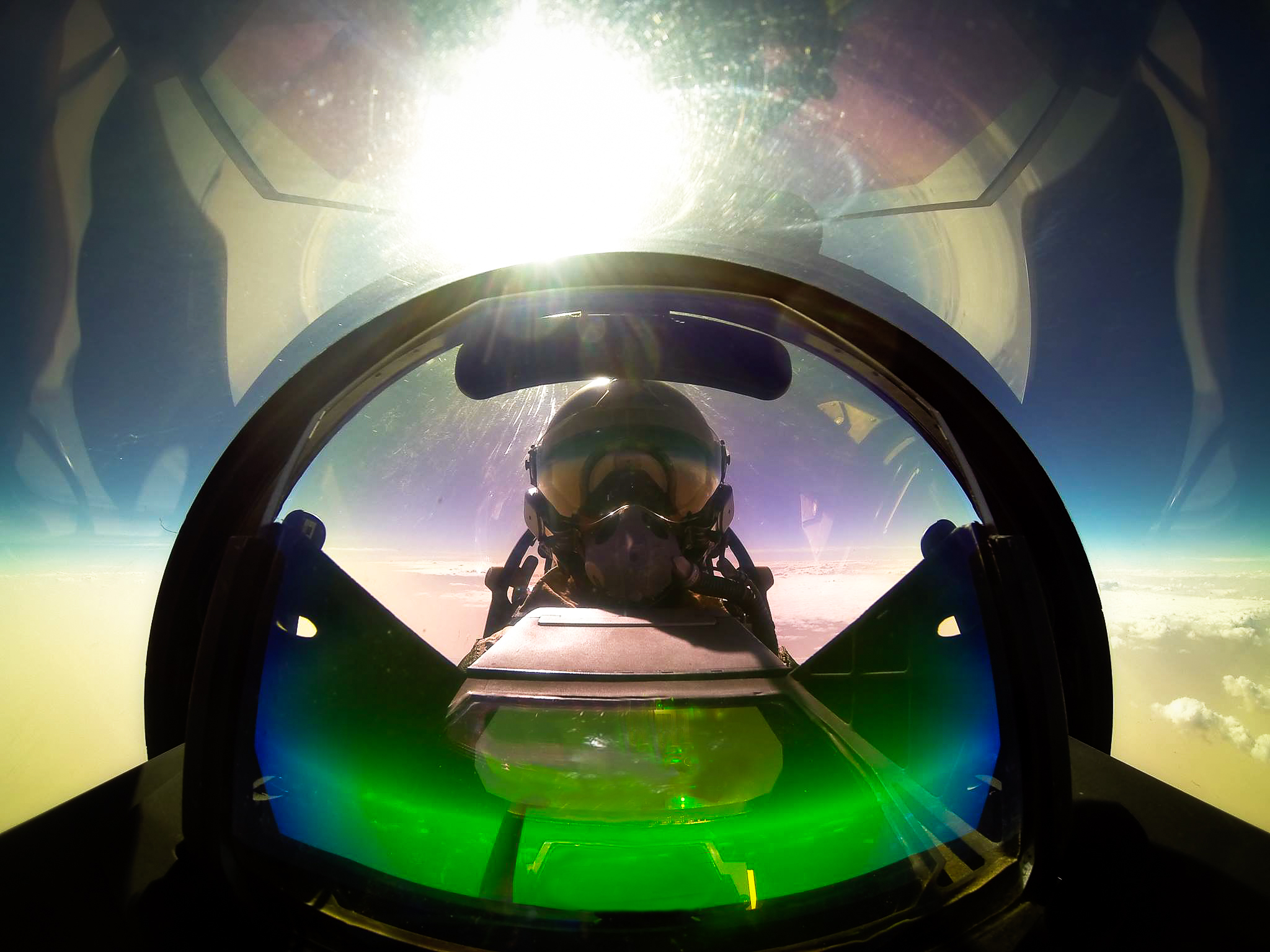 Autoportrait de Marty, pilote du Rafale solo display [Selfie of "Marty", actual Rafale Solo Display pilot]